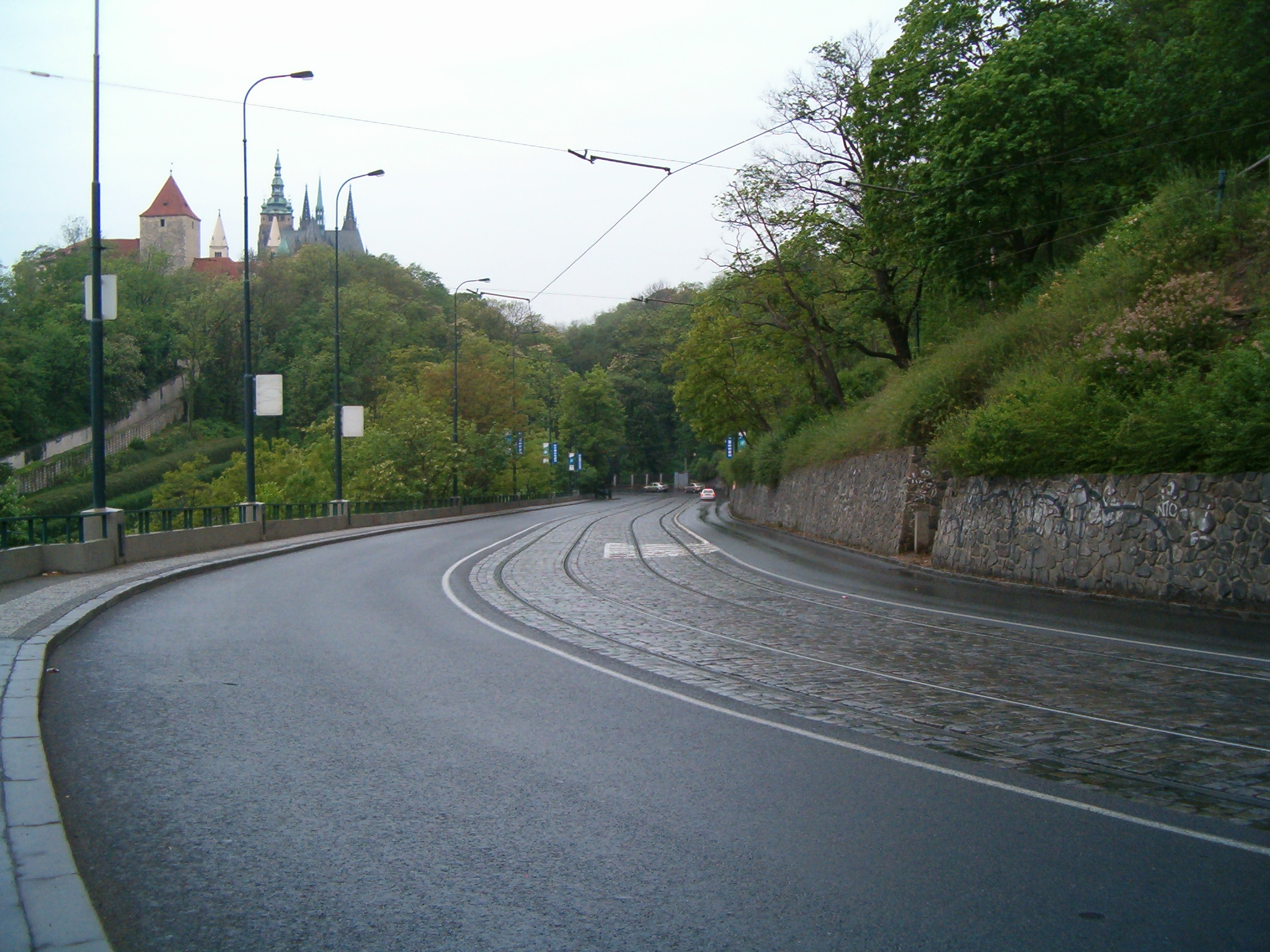 Chotkova street in Prague